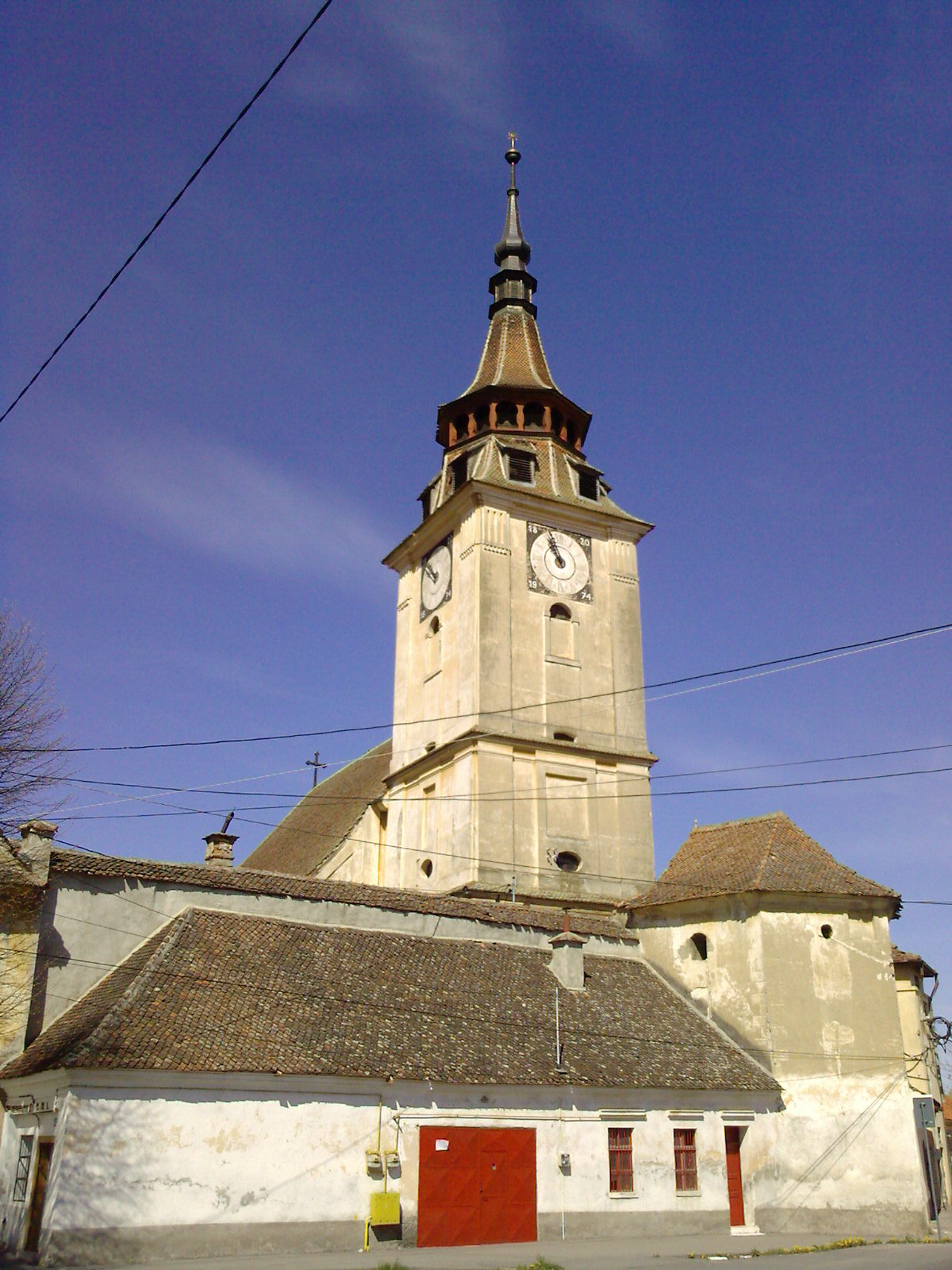 Sanpetru, Braşov, Romania, Evangelical Church 04